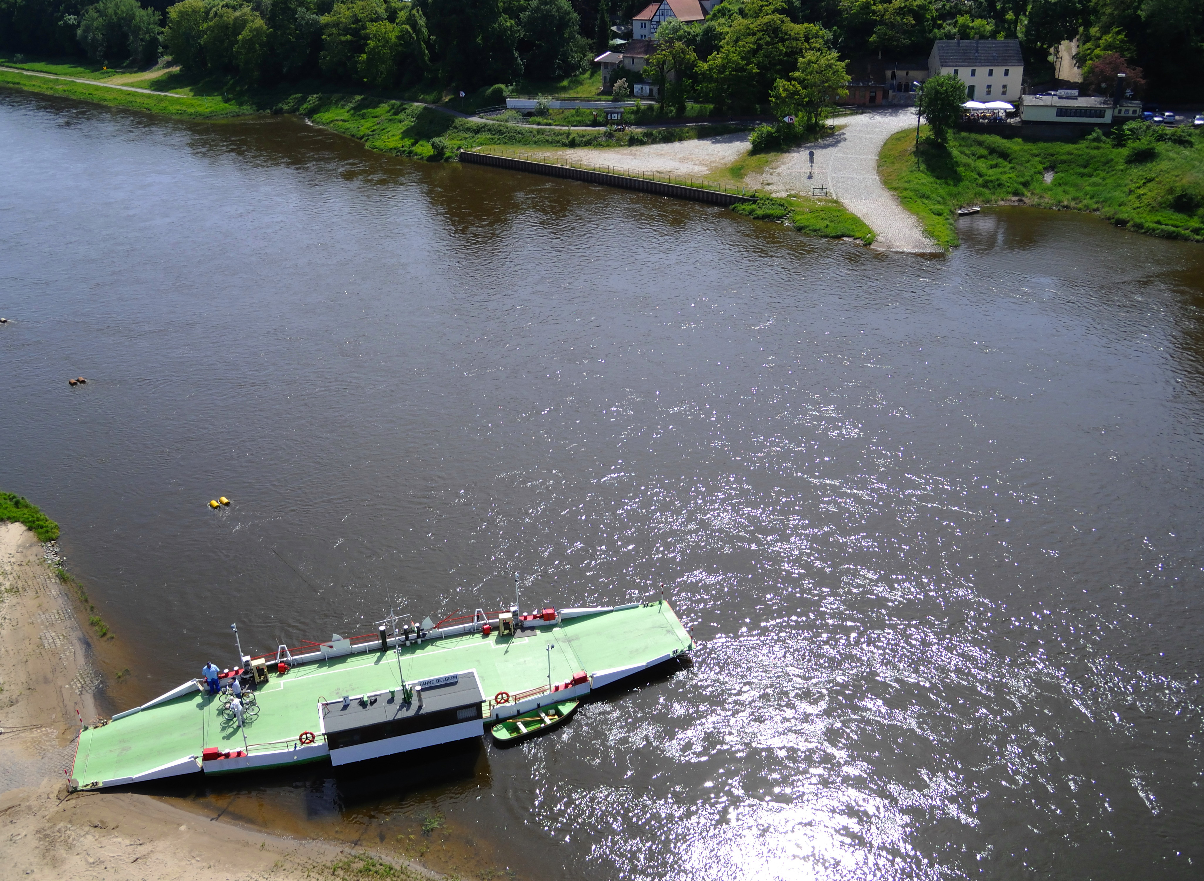 KAP (Kite Aerial Photography)